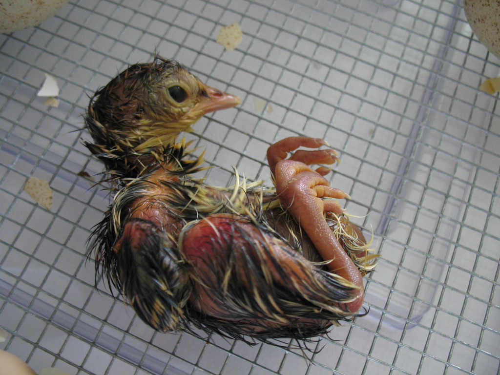 newly hatched turkey chick